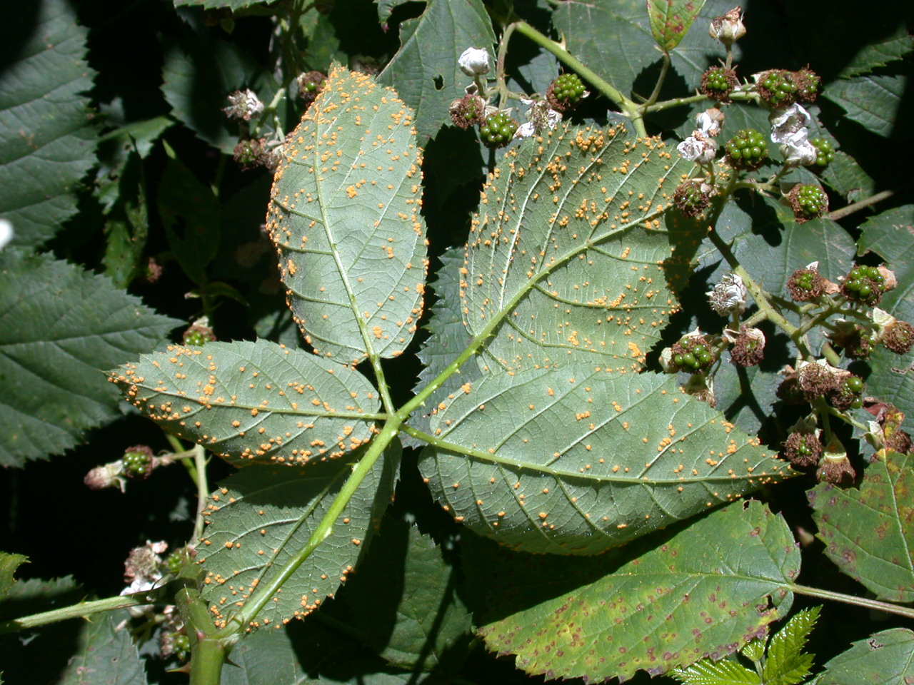 Blackberry plants infected with rust fungus, a biological control agent for blackberry. The newly released strains of the European blackberry rust fungus (Phragmidium violaceum) are highly host-specific for weedy blackberries.